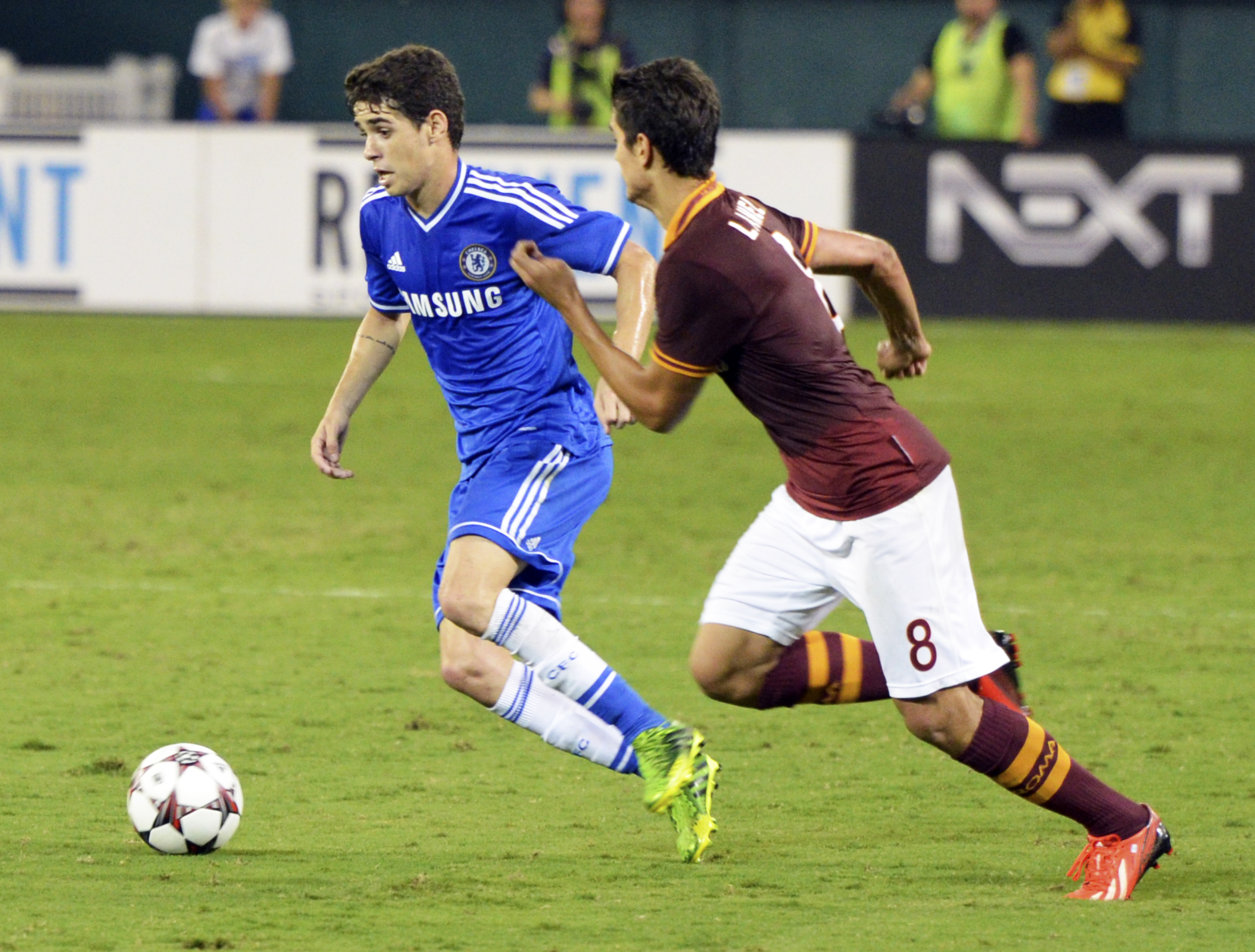 Oscar_Chelsea vs AS-Roma 10AUG2013